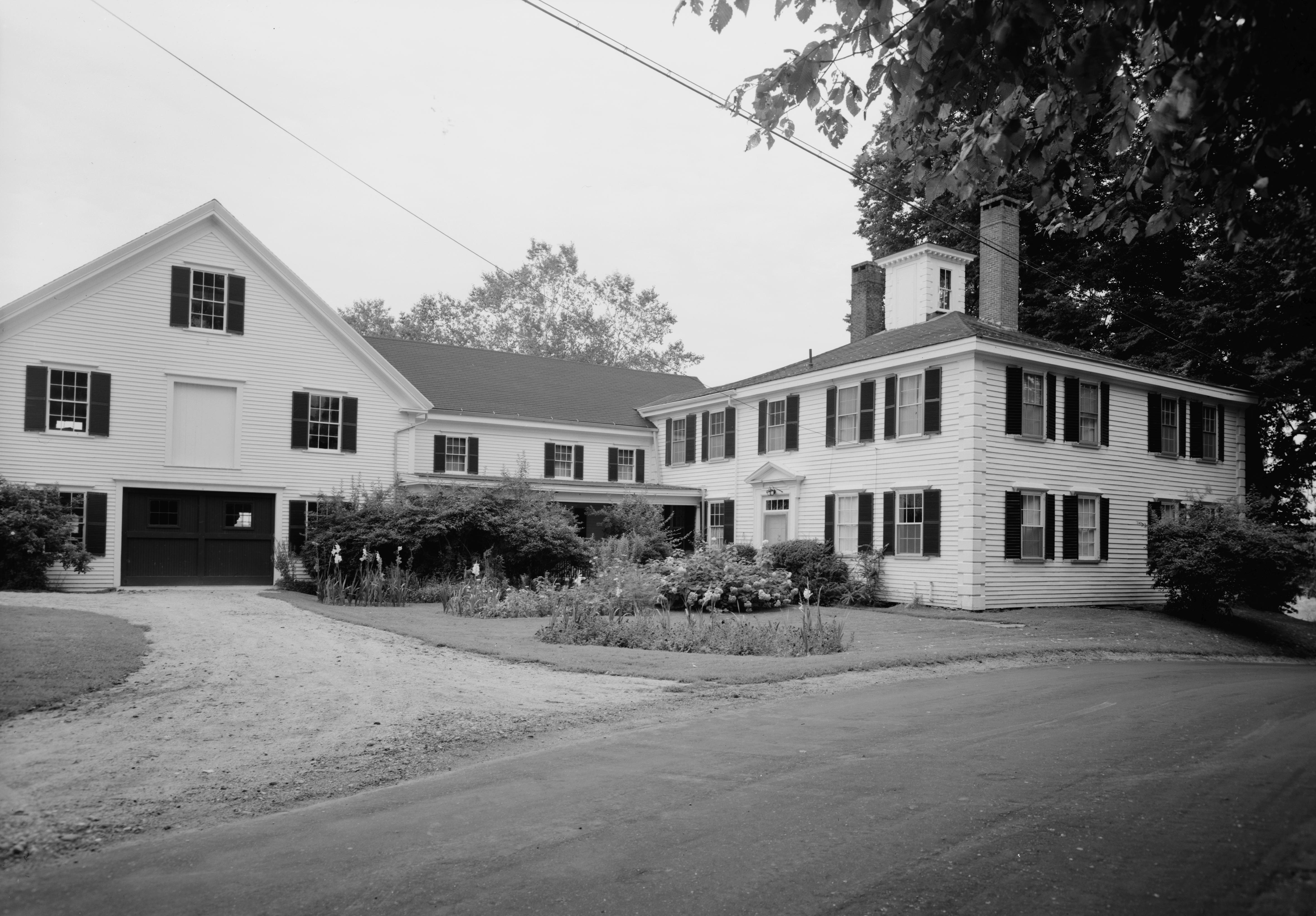 Front of the McCobb-Hill-Minott House, located along Parker Head Road in Phippsburg, a town in Sagadahoc County, Maine, United States. Built in 1774, it is listed on the National Register of Historic Places. An example of connected farm buildings.